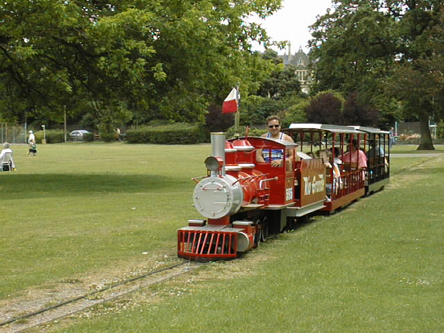 Clevedon - Salthouse Fields Train.